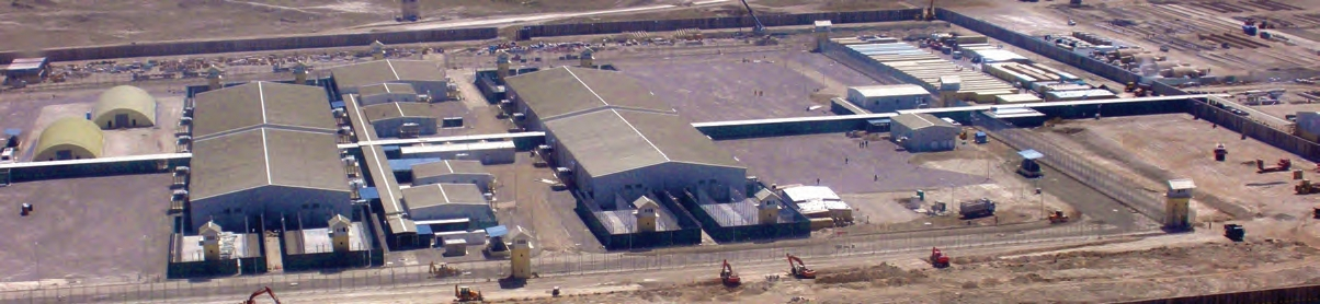 Aerial view of the new_Bagram Theatre Internment Facility.